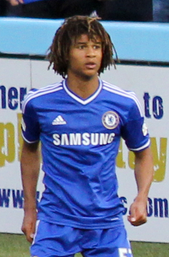 Chelsea FC defending corner during friendly match on Yankee Stadium against Manchester City.